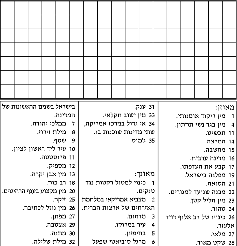 White crossword puzzle